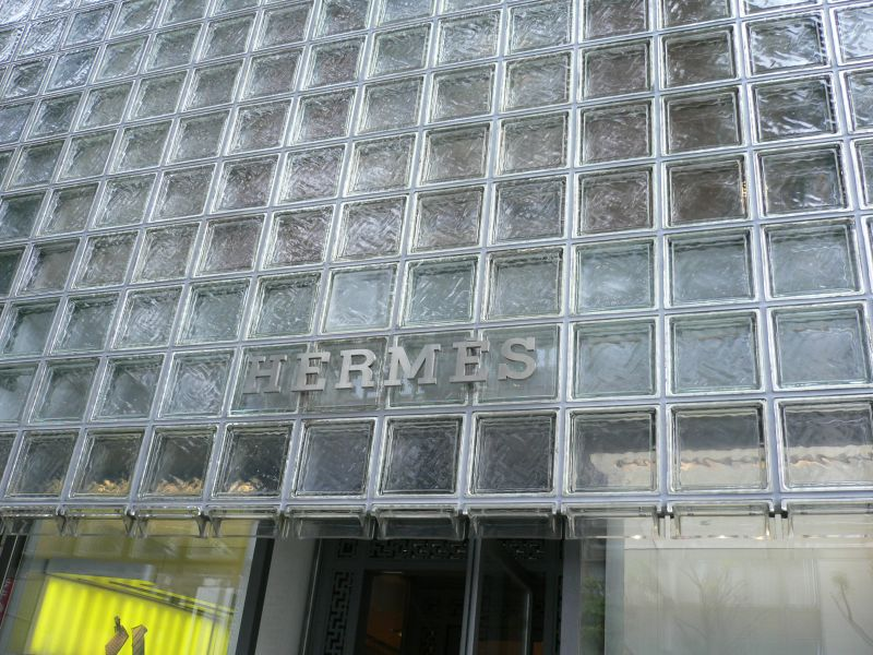 Hermès Store in Tokyo